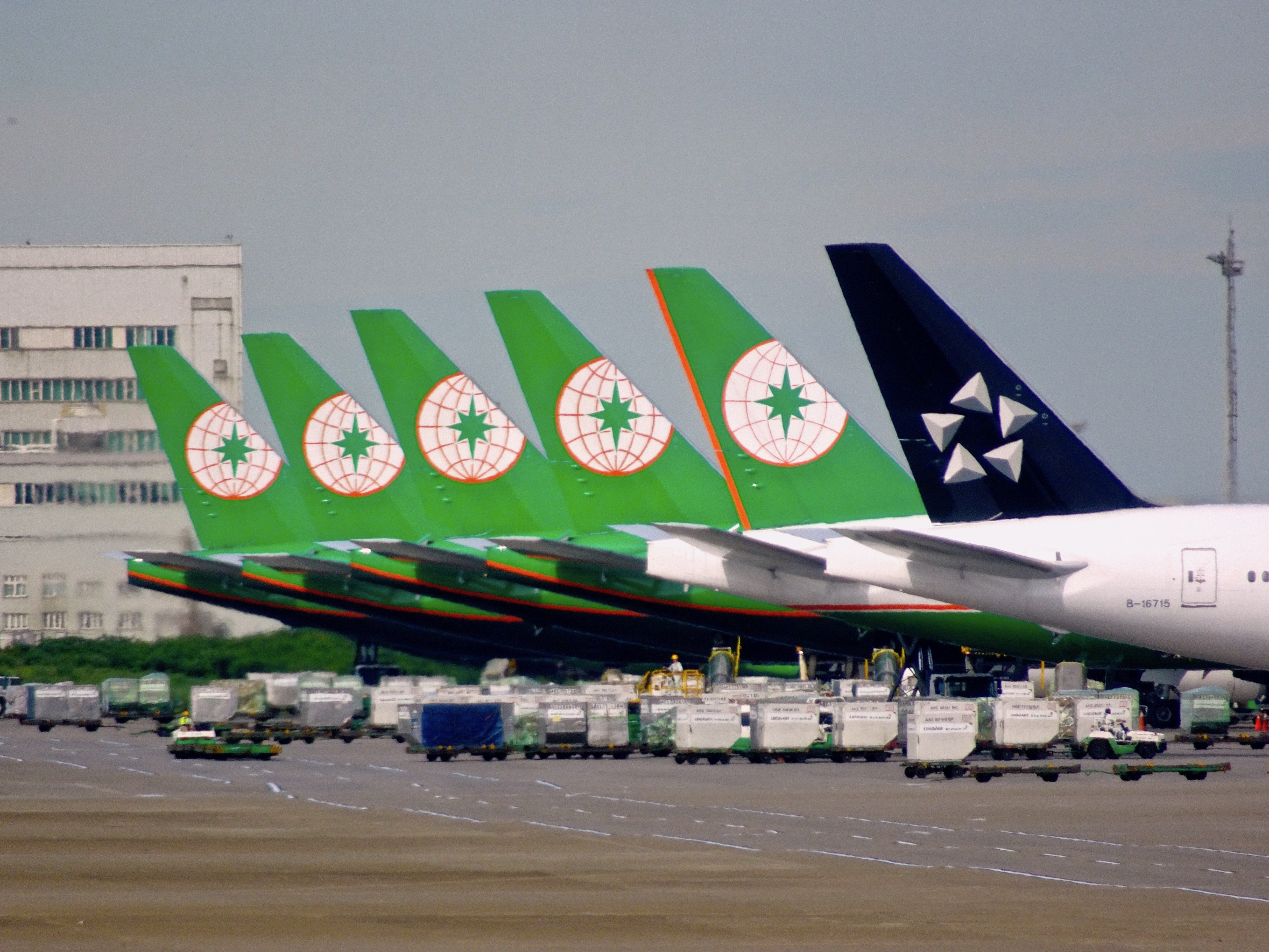 Line-up of EVA Airways Boeing 777-300ER, including the Star Alliance livery aircraft, at Taiwan Taoyuan International Airport (Taipei)